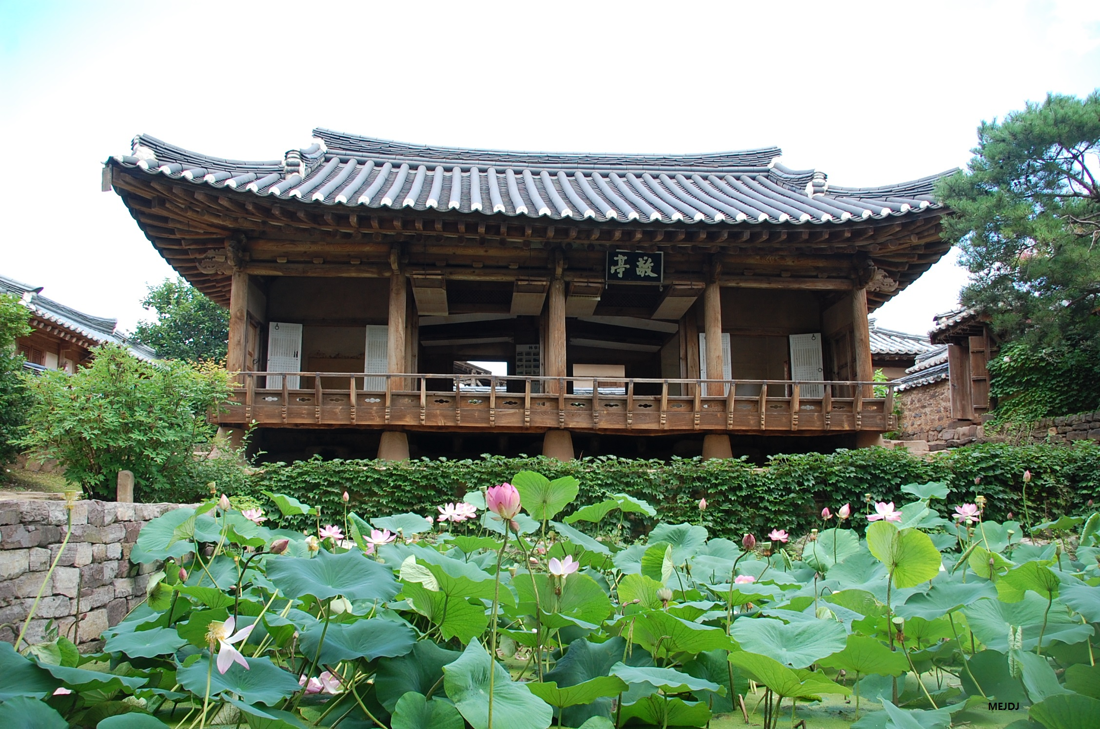 Yeongyang Seoseokji